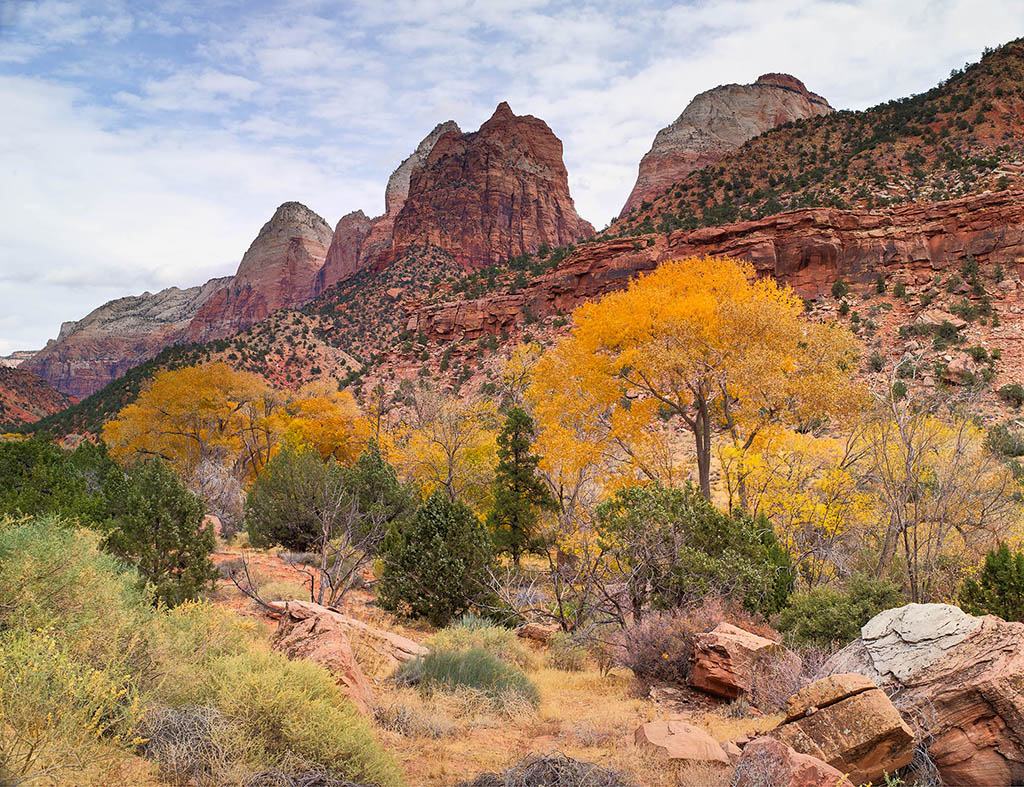 Photograph of the entrance to Zion National Park, taken with a Contax 645, 45mm, Leaf Aptus 75S